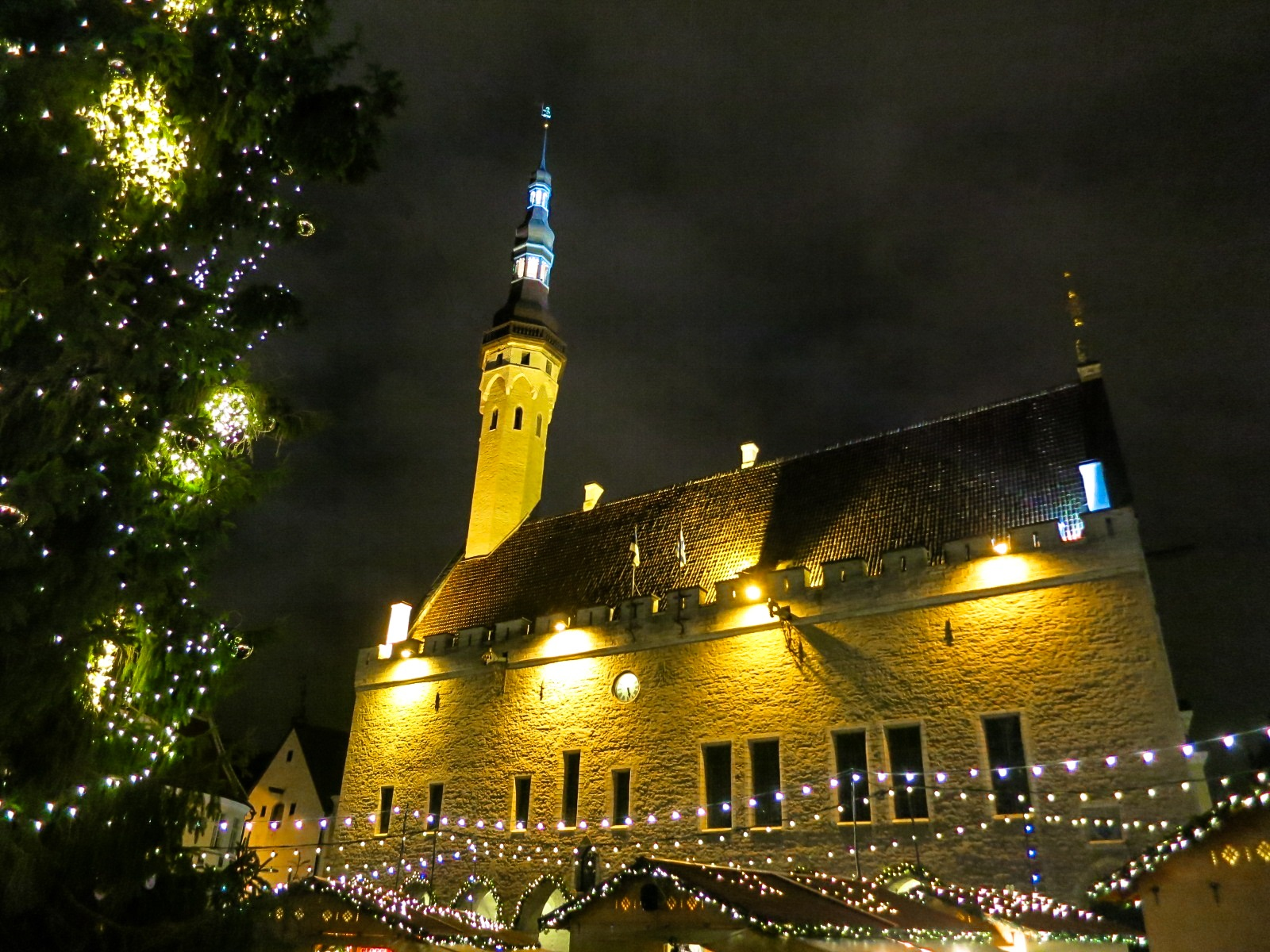 Tallinn Town Hall (Estonia) on Christmas Eve 2015.